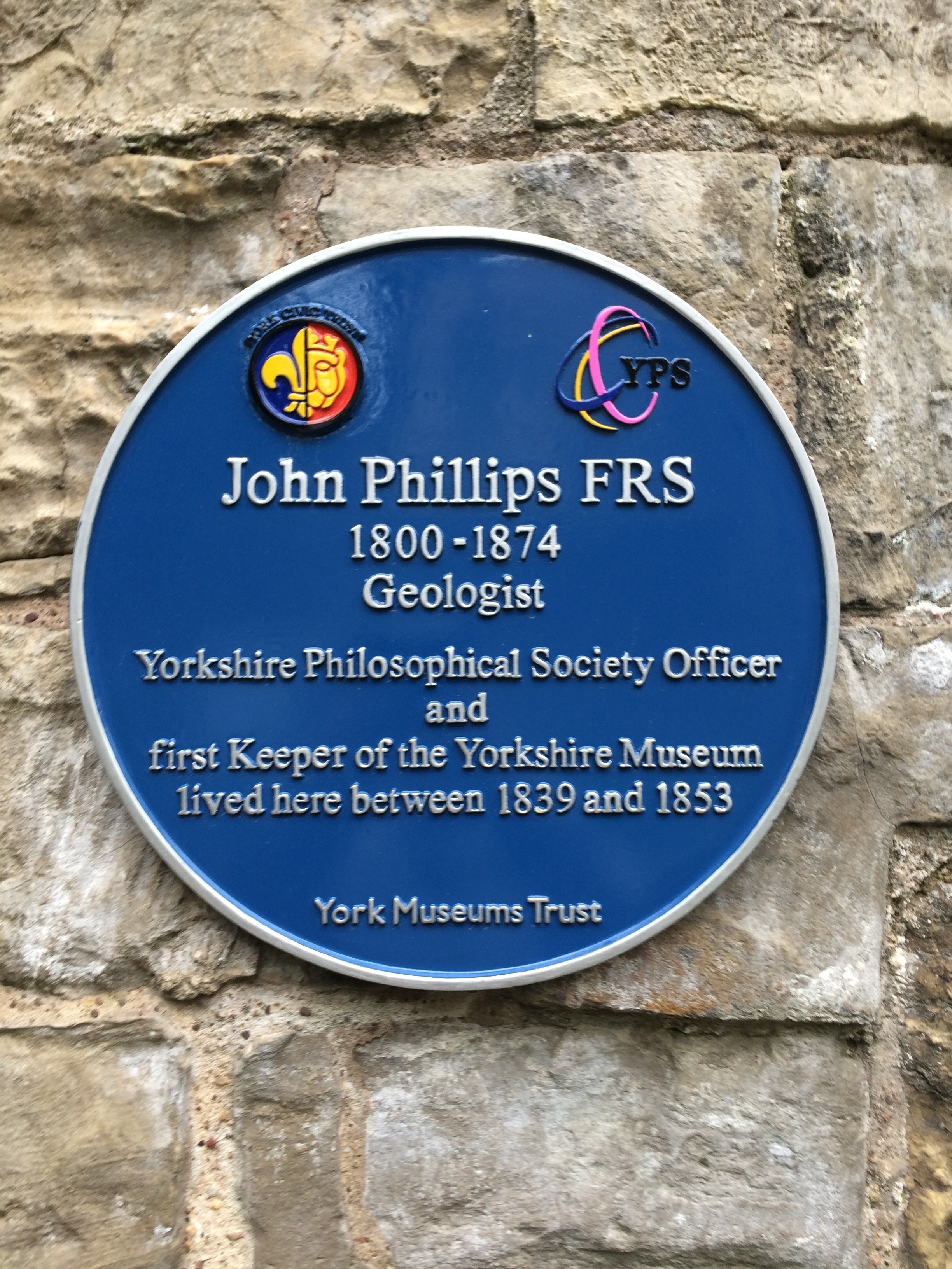 John Phillips FRS 1800-1874 Geologist Yorkshire Philosophical Society Officer and first Keeper of the Yorkshire Museum lived here between 1839 and 1853 (This image represents an Open Plaques entry)